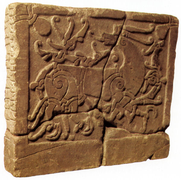 St Paul's Churchyard Runestone (London)